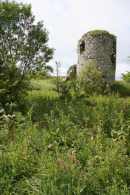 Pitlurg Castle There is some confusion between this and the lands of Pitlurg near Ellon in Aberdeenshire. Some sources say that this was the home of a family of Gordons who included Jock of Scurdargue and his descendant Robert Gordon of Straloch, a 17th century scholar and polymath. Other sources locate this family in the Pitlurg near Ellon. This looks like a suitable topic for further research!